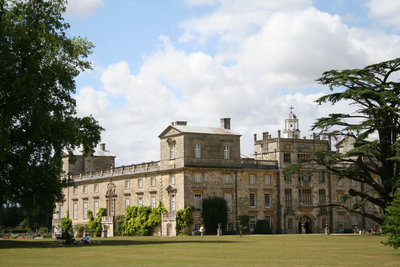 A good view of the side of the house.